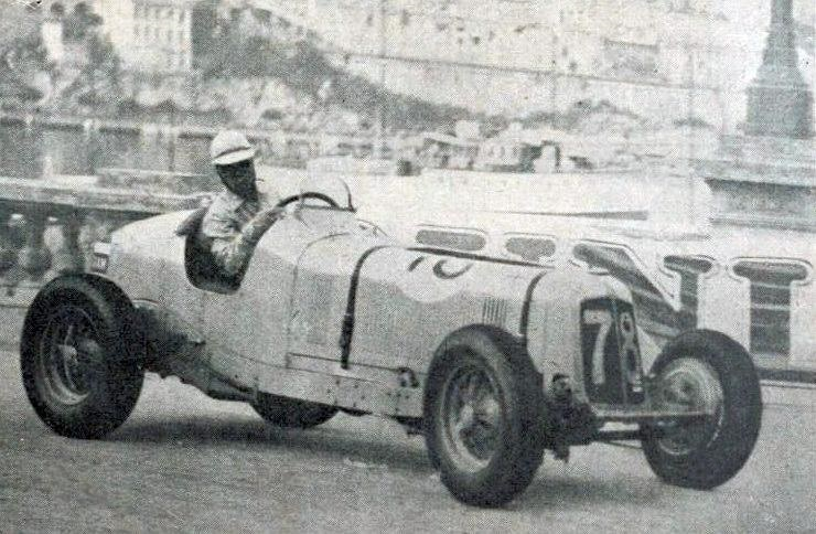 Prince Bira wins the Coupe du Prince Rainier 1936 in Monaco in his ERA R2B Romulus[1]